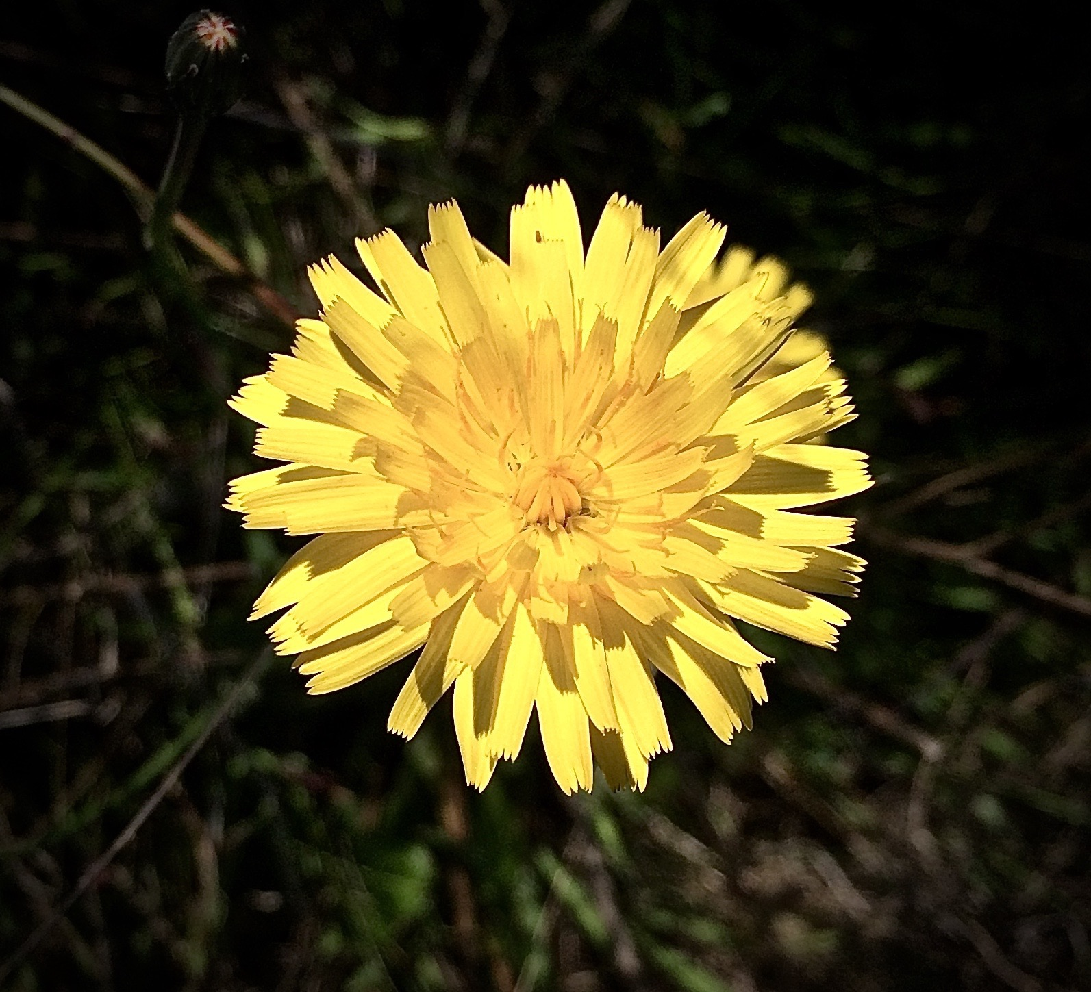 Happy New Year! May yours (and mine) be happy, prosperous & full of flowers! Agoseris apargioides, or seaside false-dandelion, I think.